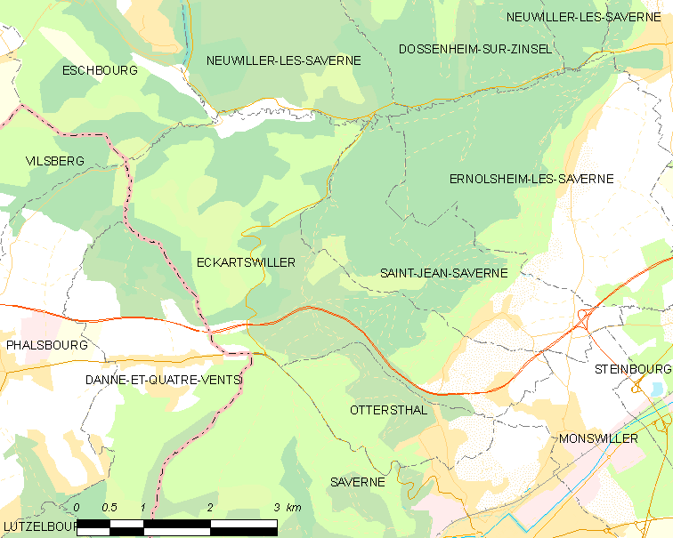 Map of French municipality